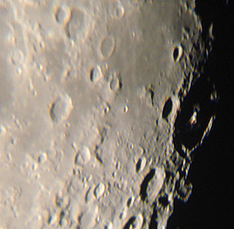 This picture is the result of stacking 50 subframes of a video recorded with a handheld digicam through a Meade Lightbridge 16 inch diaphragmed down to 90mm.